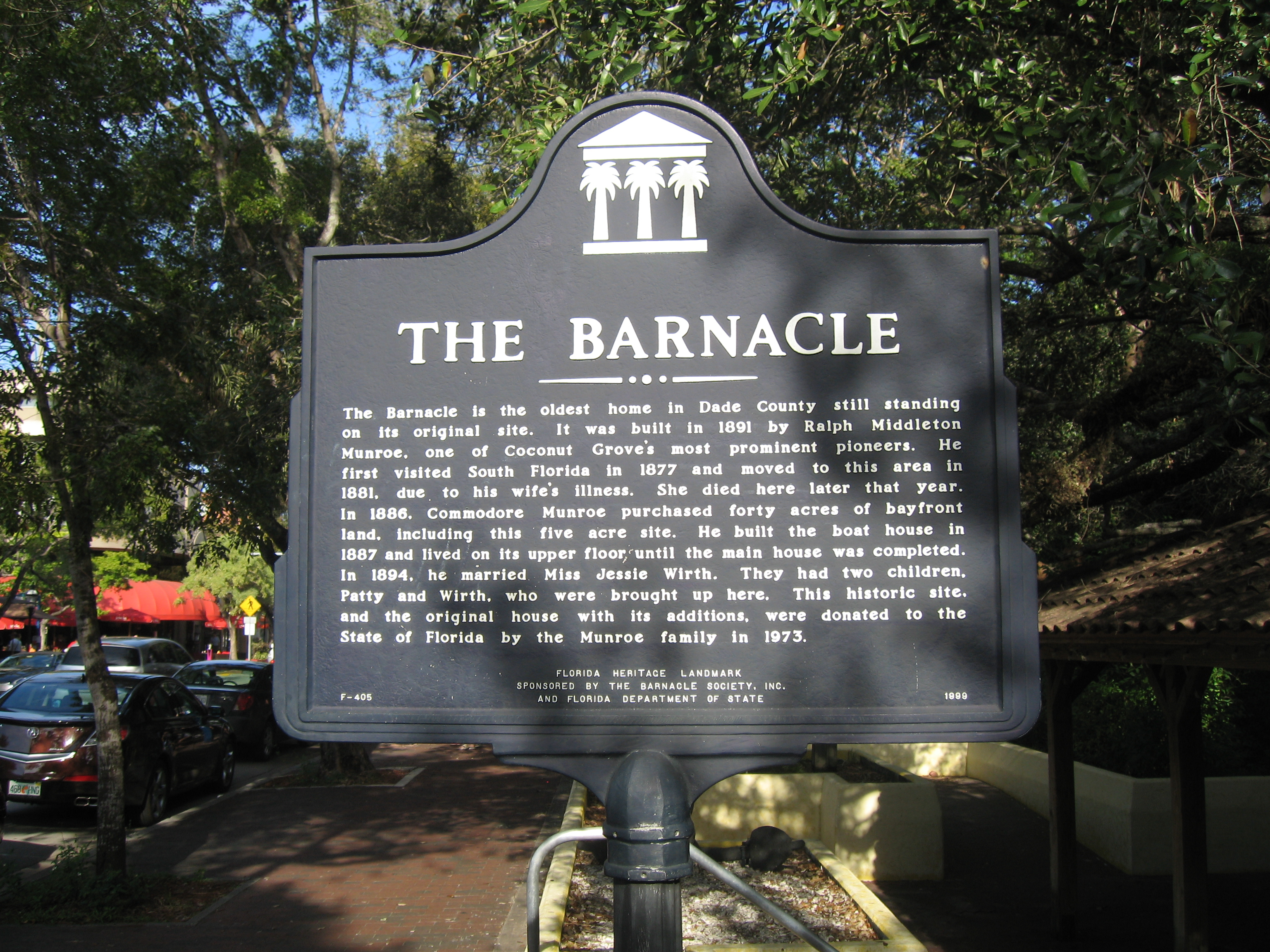 The Barnacle historical marker located at The Barnacle Historic State Park, 3485 Main Highway, Coconut Grove, Florida.